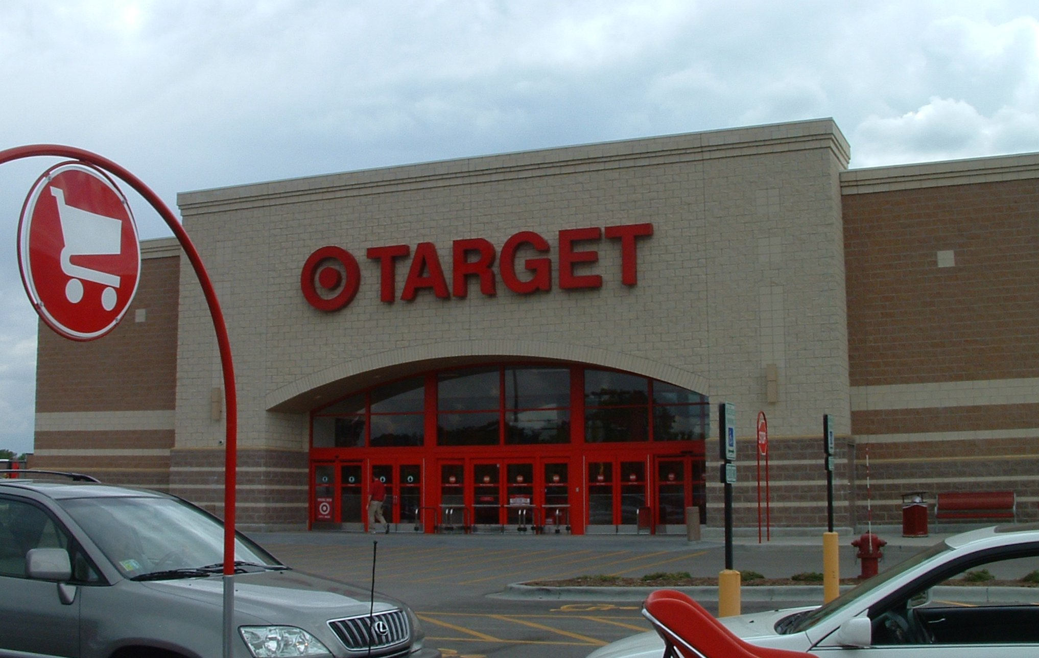 Target storefront, from suburban Chicagoland. Photograph taken May 28, 2005 by Kelly Martin.